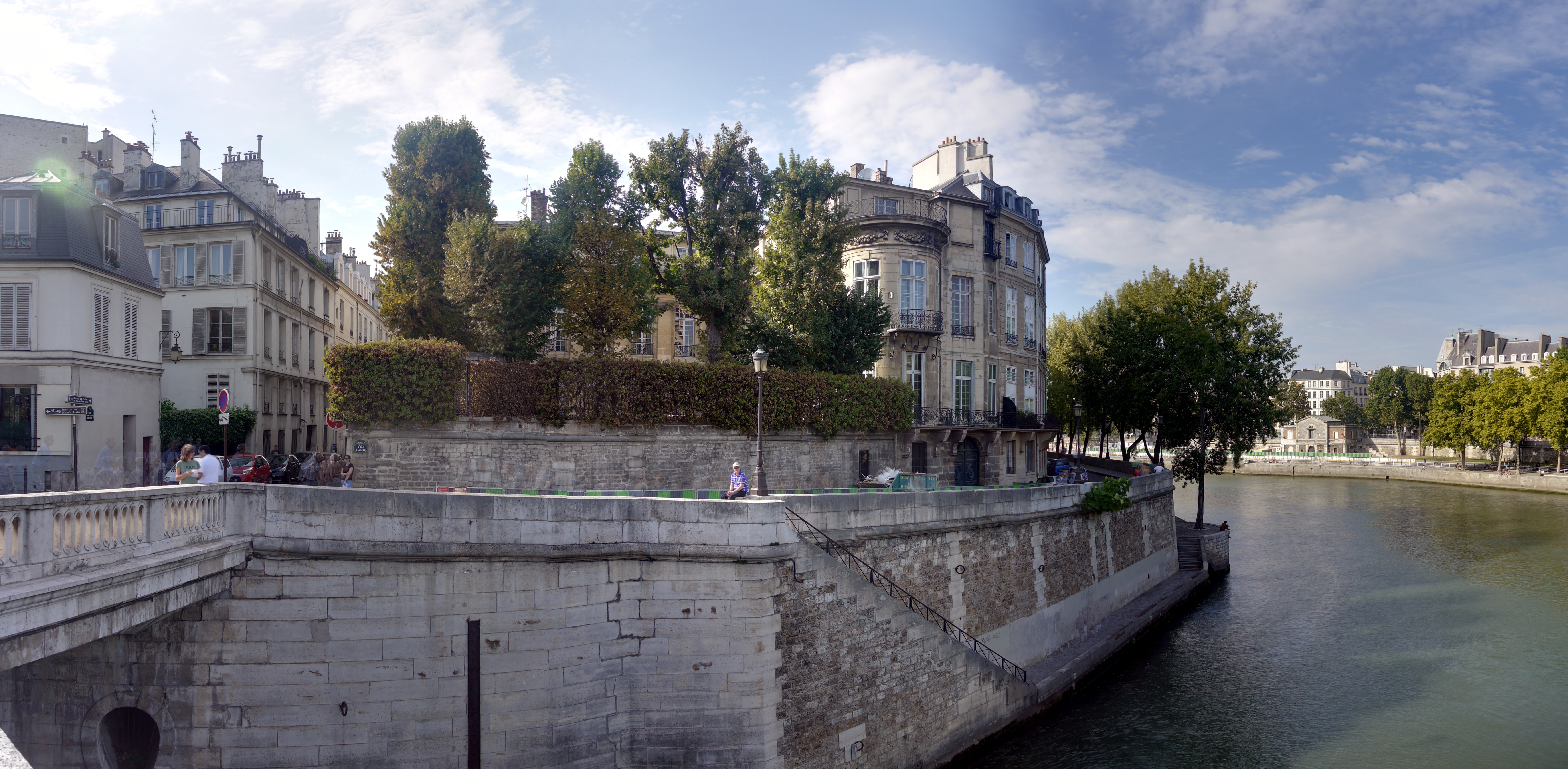 The view from the Sully Bridge of Paris.